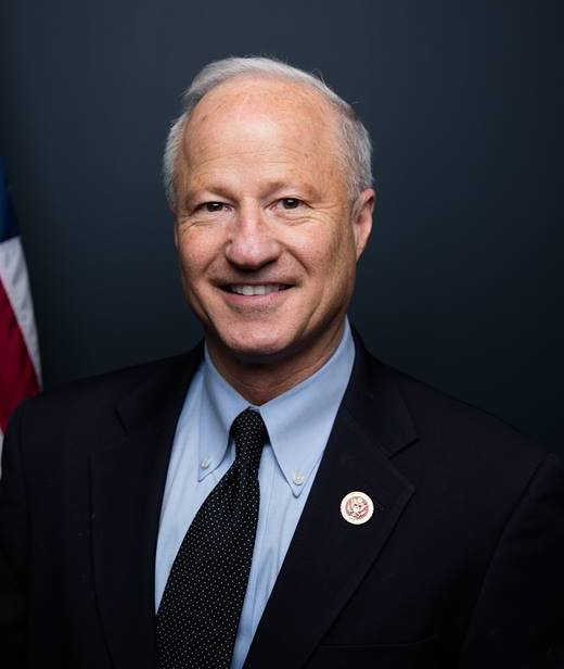 Mike Coffman official photo